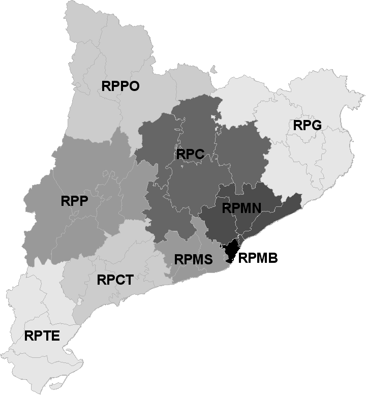 Map of Mossos's Police Regions.